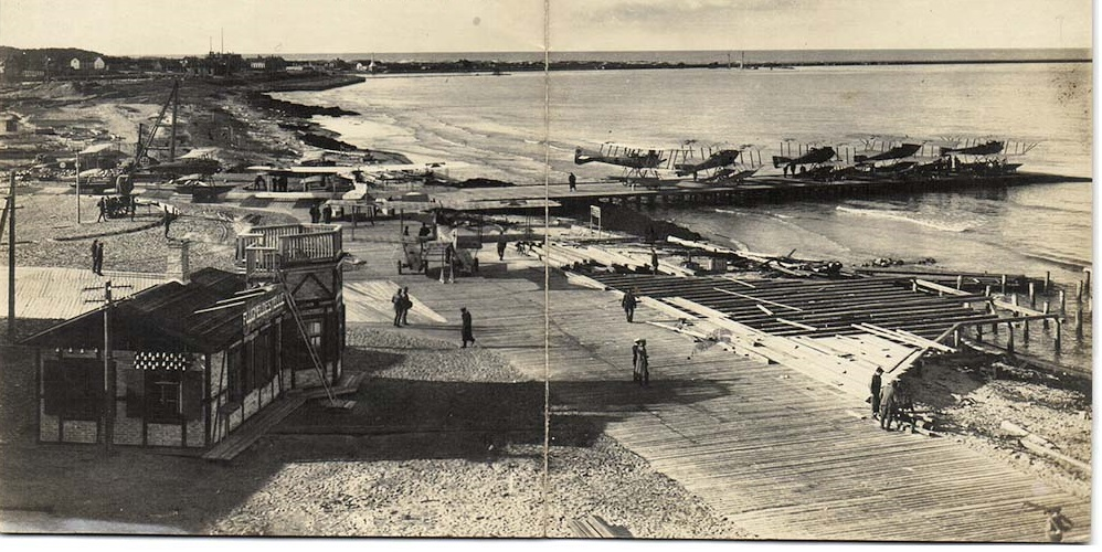 Carte Postale (Open Letter) of the period with Luftstreitkräfte ready for attack of Oesel (Saaremaa) Island. October 1917. Operation Albion. Eastern Front WWI. There is handwritten ink note in German on the back of the CP:"17. Oct. 17 8:30 abends 2 start um angriff am Insel Osel"